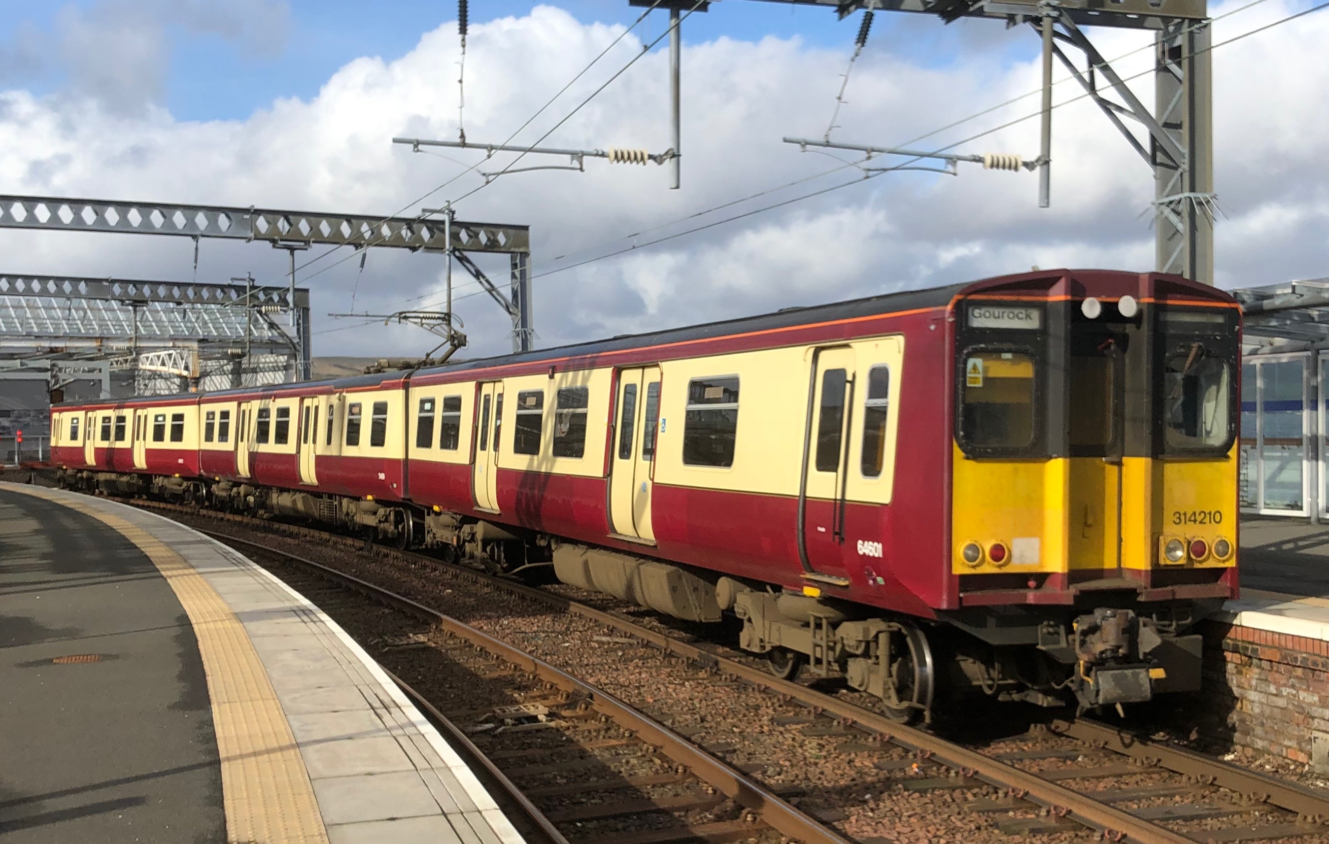 Gourock railway station Platform 1 in March 2019, with Class 314 train 314210 in de-branded SPT colours.